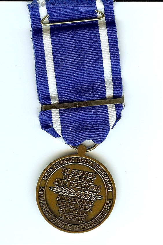 NATO medal for service in Former Yugoslavia (Reverse Side)